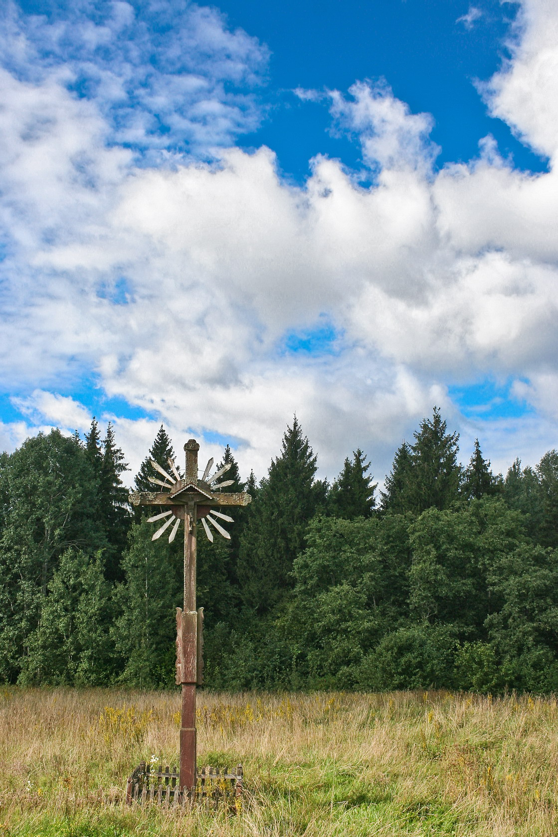 A memorial cross for deceased freedom fighters, Paskarbė, Ukmergė District, Lithuania